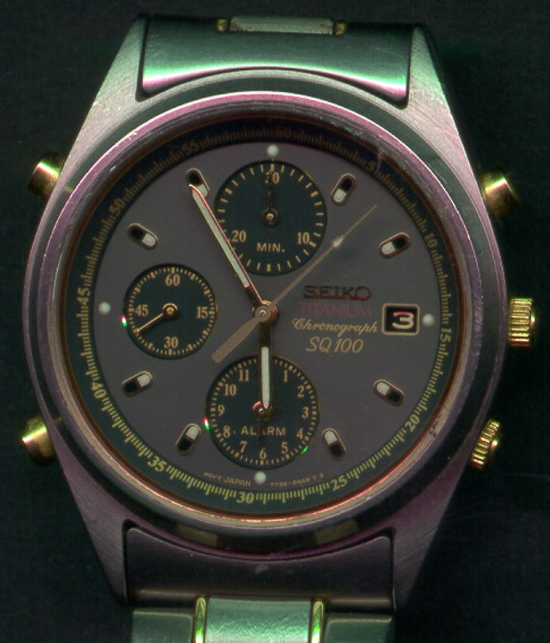 Watch